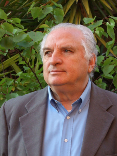 A picture of the Italian Artist Michele Cossyro.